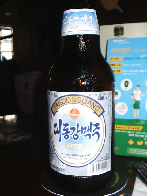 A bottle of Taedonggang beer as sold at a pub in Itaewon, South Korea.